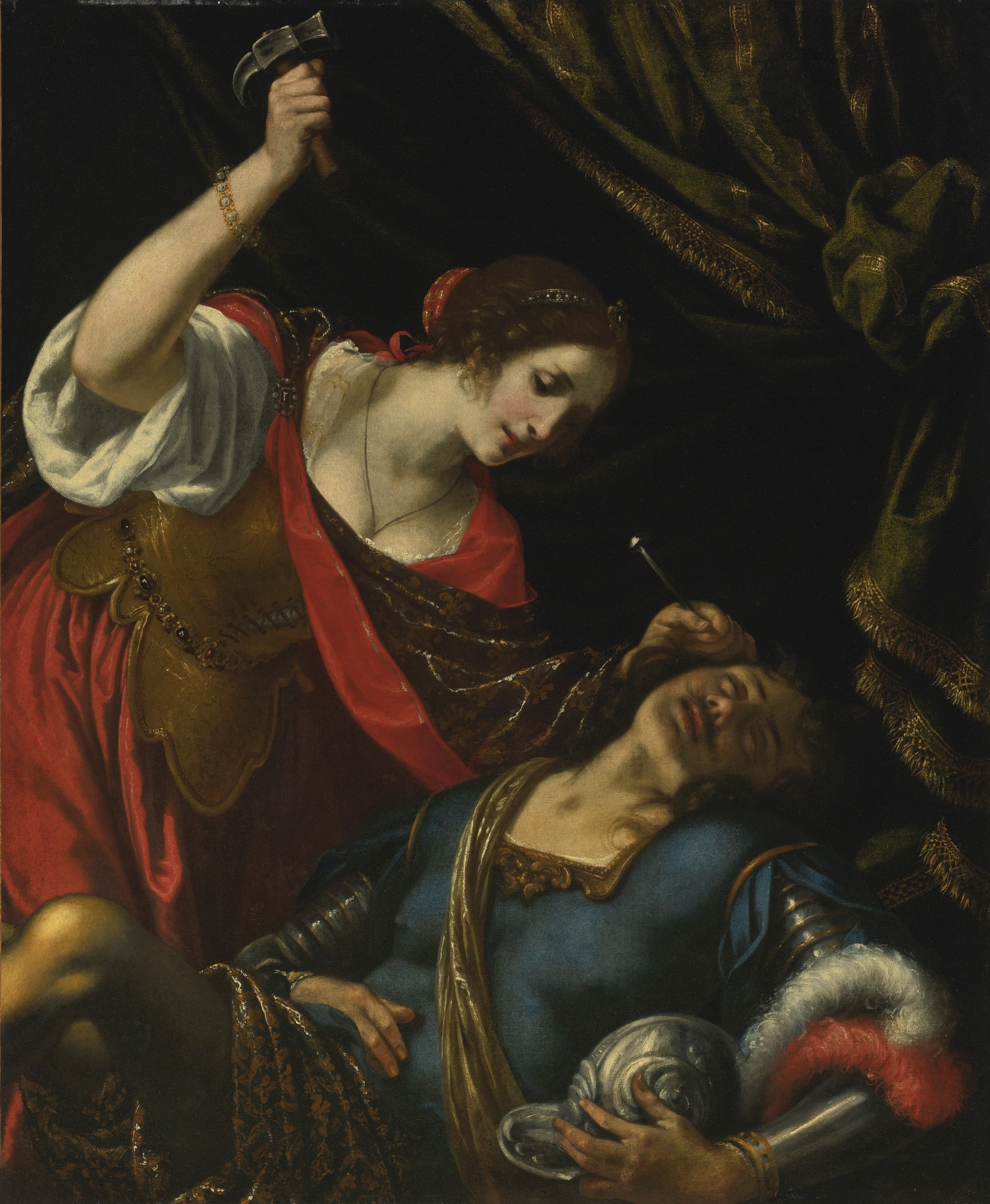 Jael and Sisera